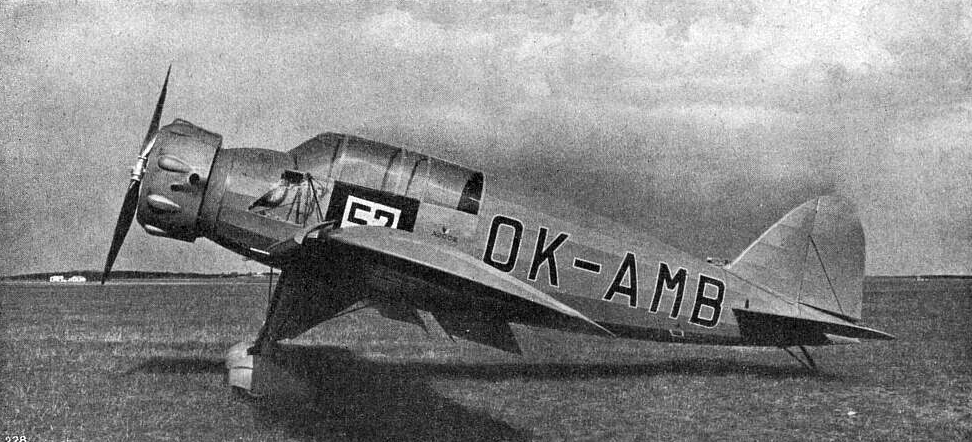 Aero A.200 photo from L'Aerophile October 1934